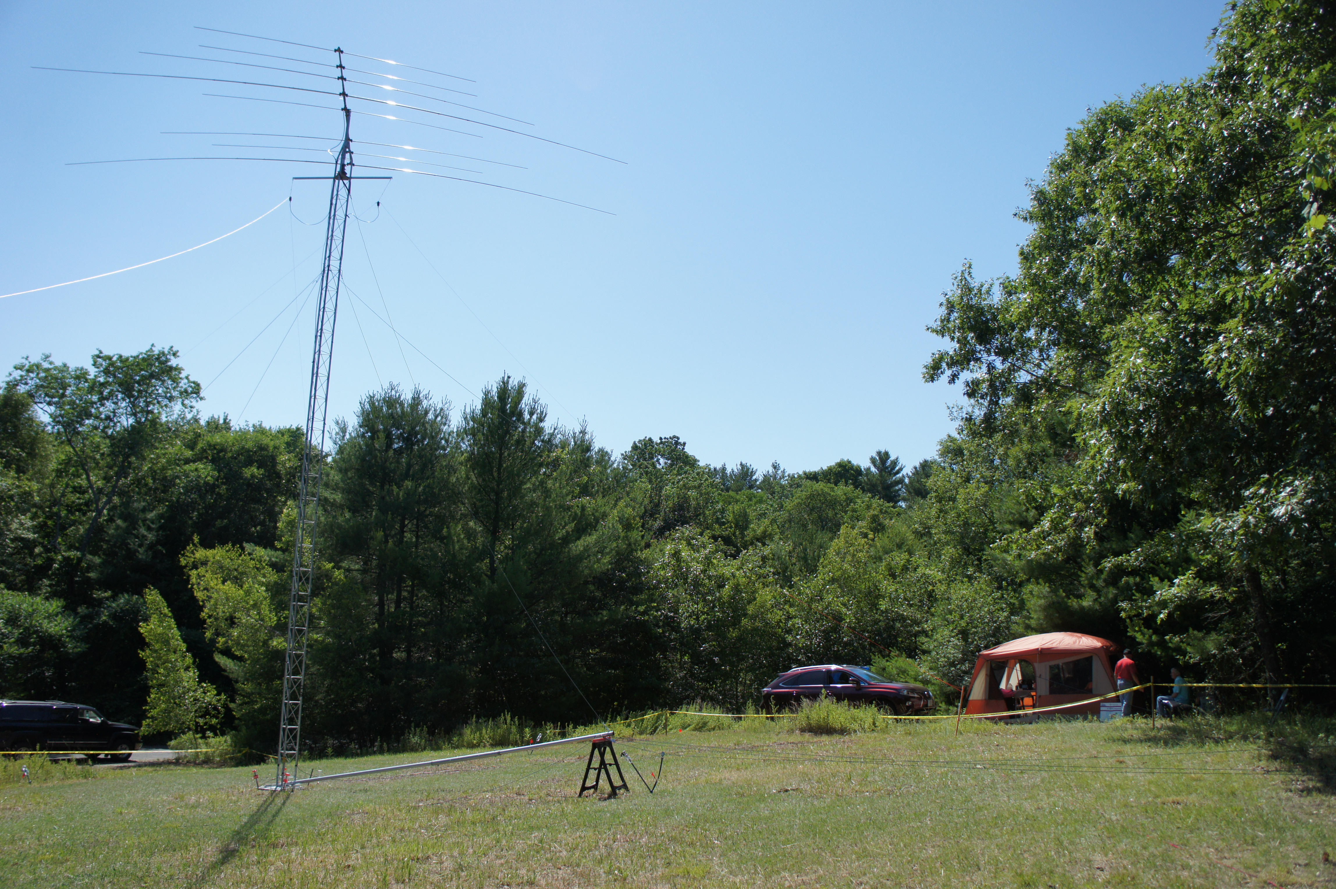 Station of the 2014 World Radiosport Team Championship (WRTC), Massachusetts, USA Left side: 40foot (12m) tower with TX38 tri-band Yagi Antenna Right side: Tent 13feet x 10feet (4m x 3m)